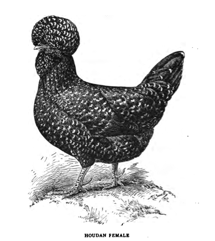 The example illustration of the ideal Houdan female chicken from the American Poultry Association's Standard of Perfection circa 1905.